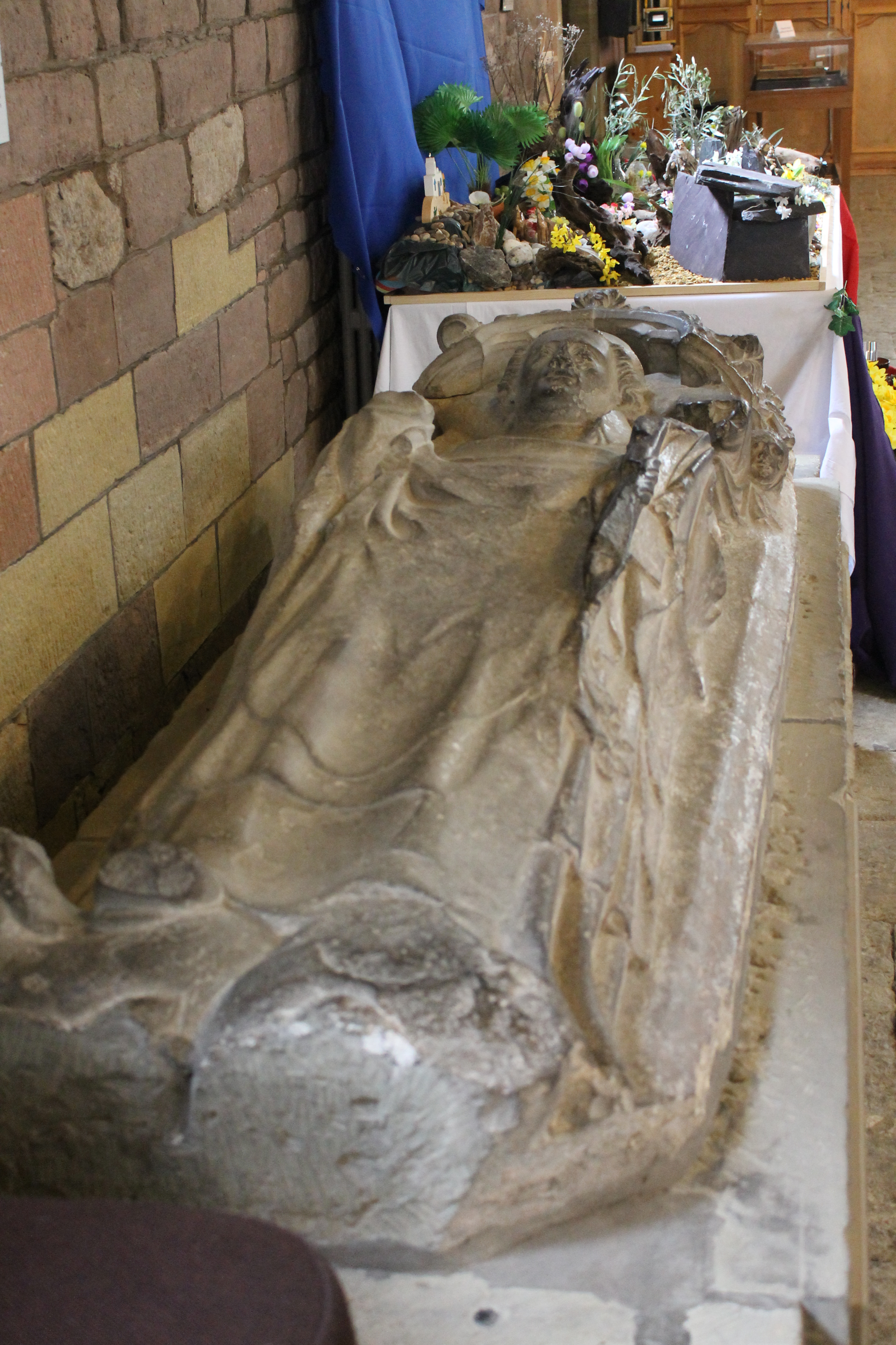 Effigy of bishop, possibly Anian II; St Asaph Cathedral, Denbighshire, Wales.